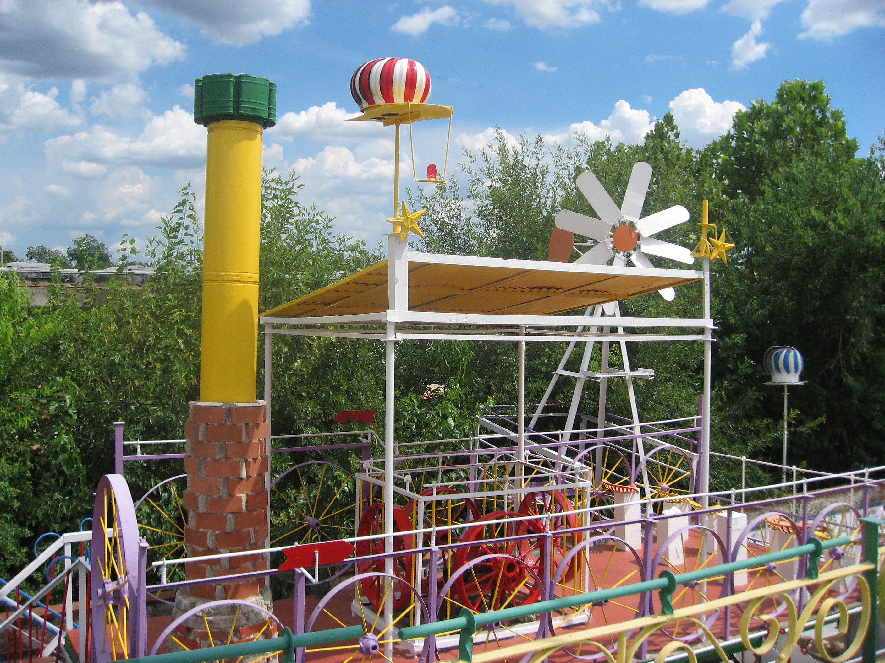 Jeff McKissack, an eccentric Houston postman, worked alone for 25 years from 1956 until his death to create this oddity.